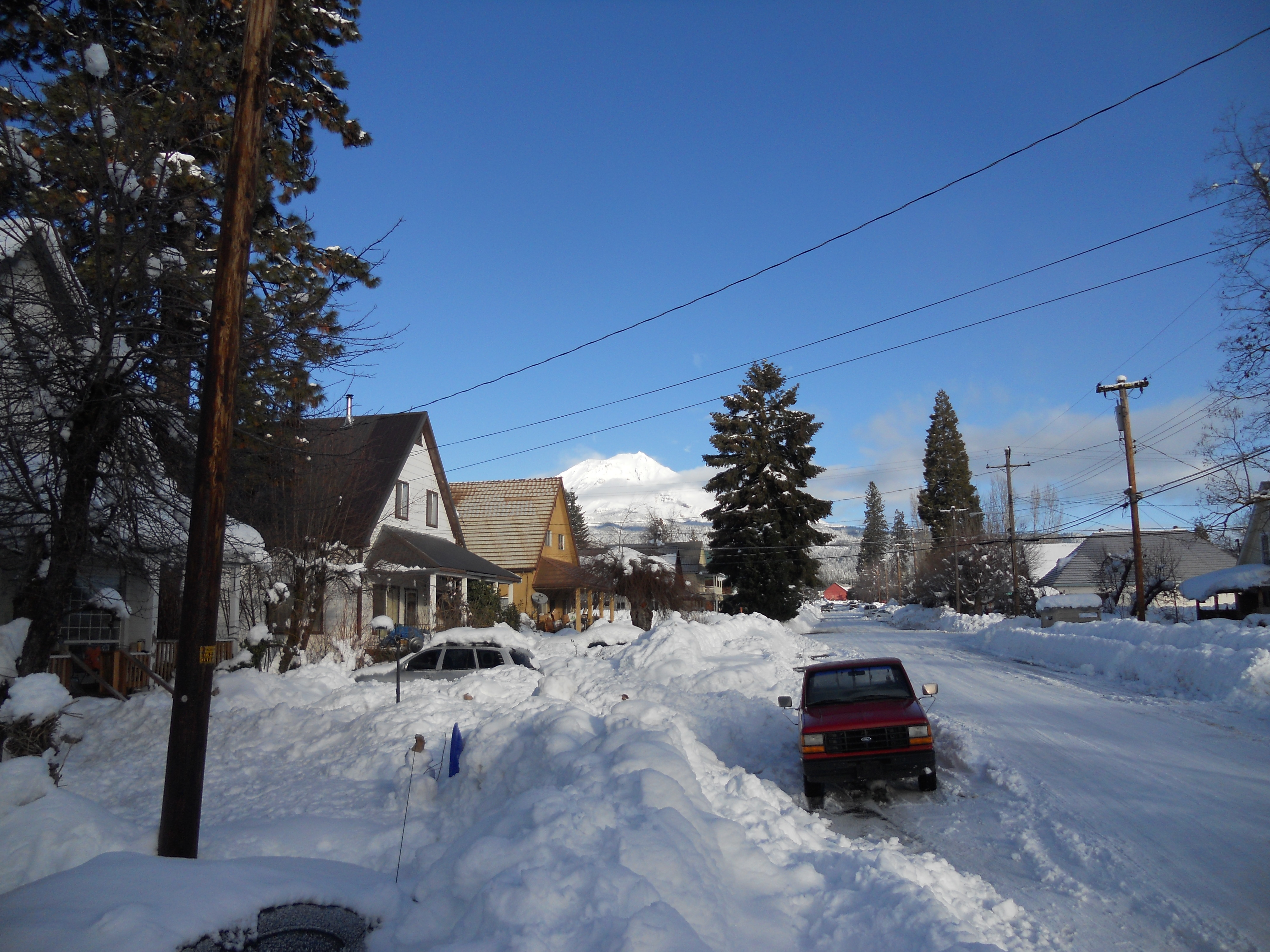 The Census-designated place (CDP) of McCloud in Siskiyou County, California, United States, with snow-covered Mount Shasta visible in the distance